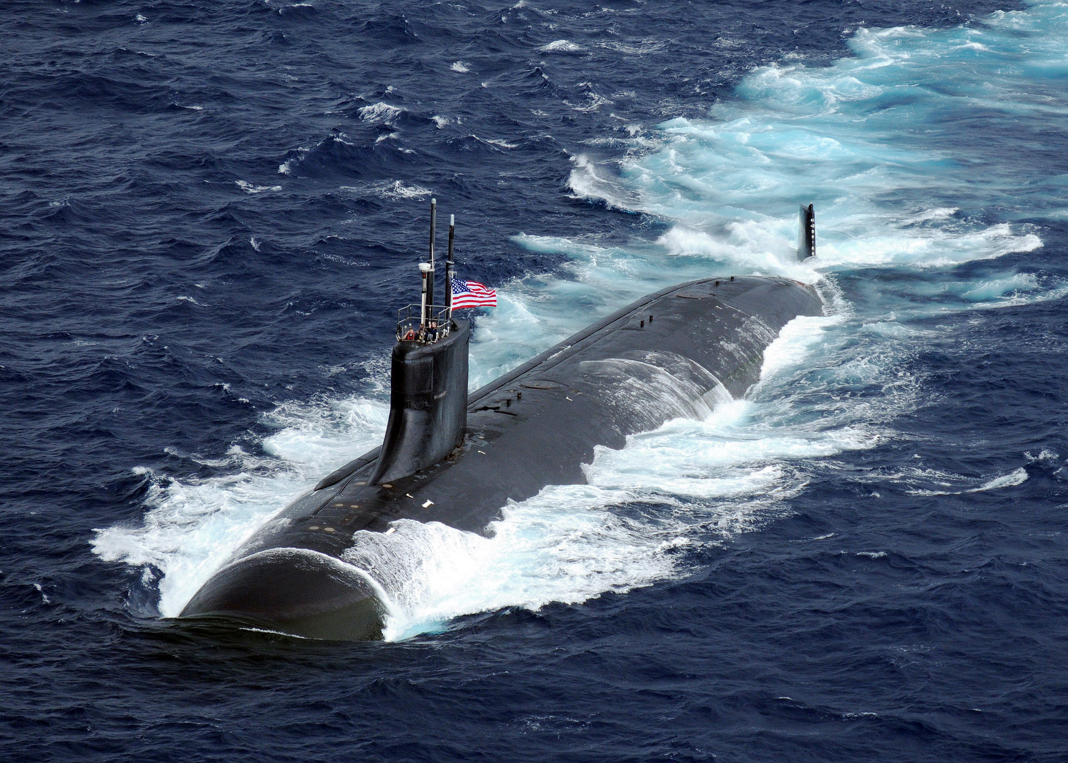 PACIFIC OCEAN (Nov. 17, 2009) The Seawolf-class attack submarine USS Connecticut (SSN 22) is underway in the Pacific Ocean. Ships from the U.S. Navy and Japan Maritime Self-Defense Force are participating in Annual Exercise (ANNUALEX 21G), a bilateral exercise designed to enhance the capabilities of both naval forces. (U.S. Navy photo by Mass Communication Specialist Seaman Adam K. Thomas/Released)